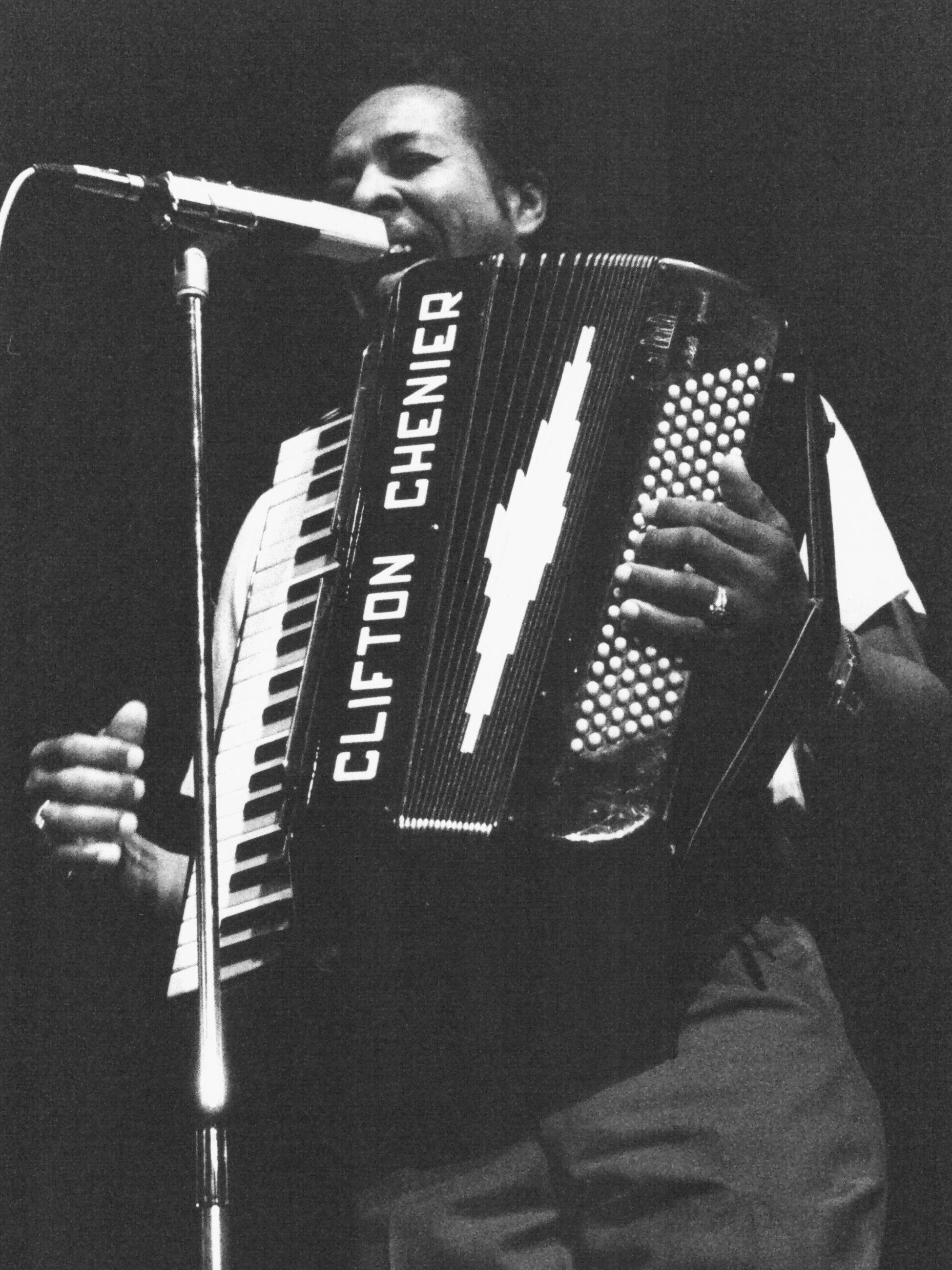 Clifton Chenier in Paris, France